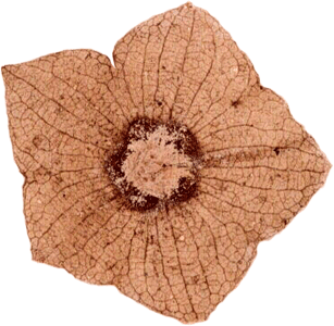 Fossilized cocoa leaf